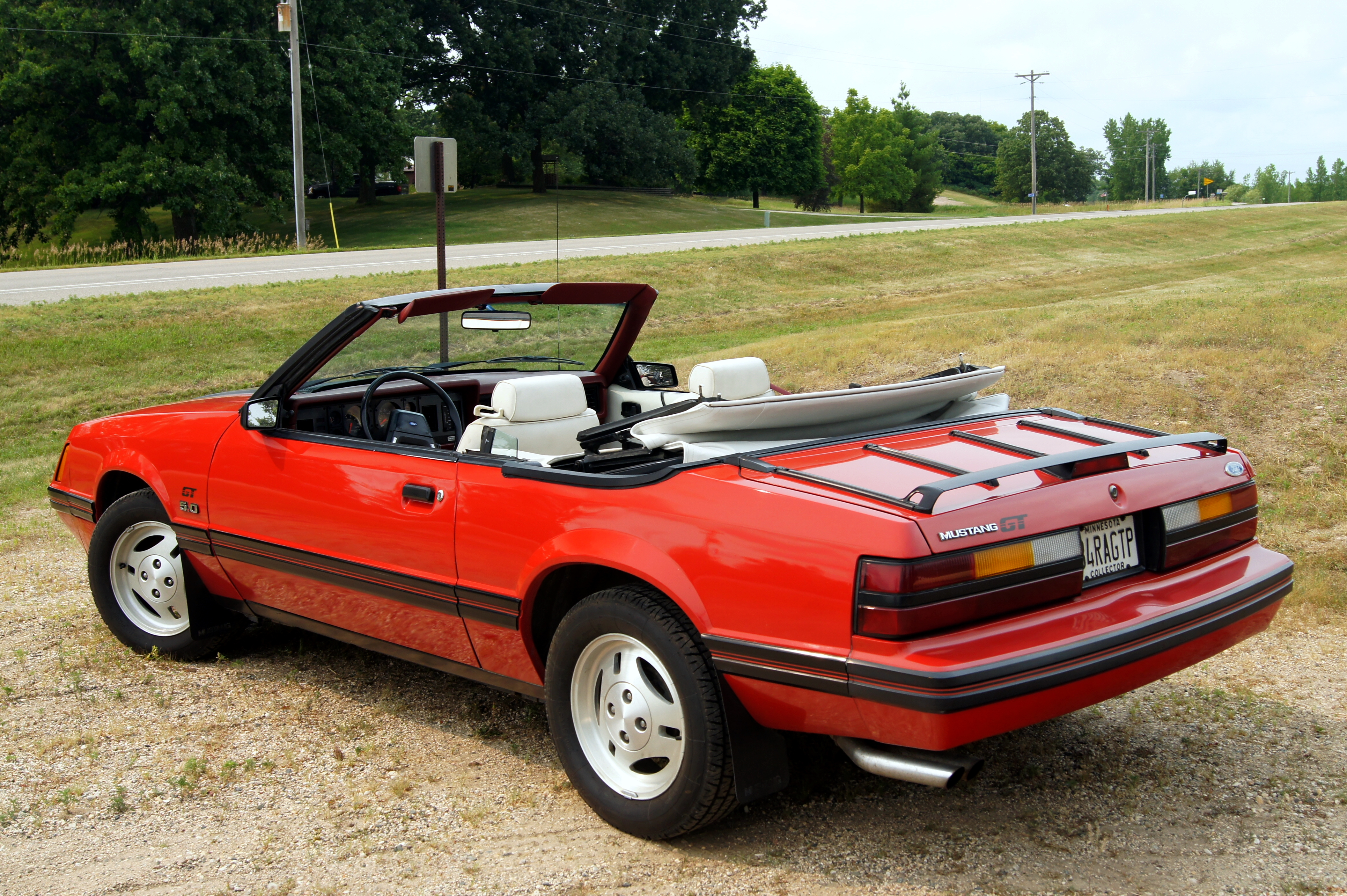 Willmar Car Club Picnic July 19, 1014 Rodvik Park New London Minnesota Cliff reserved an excellent location for the Club Picnic. There was great weather, food and company. Photos of other Willmar Car Club events